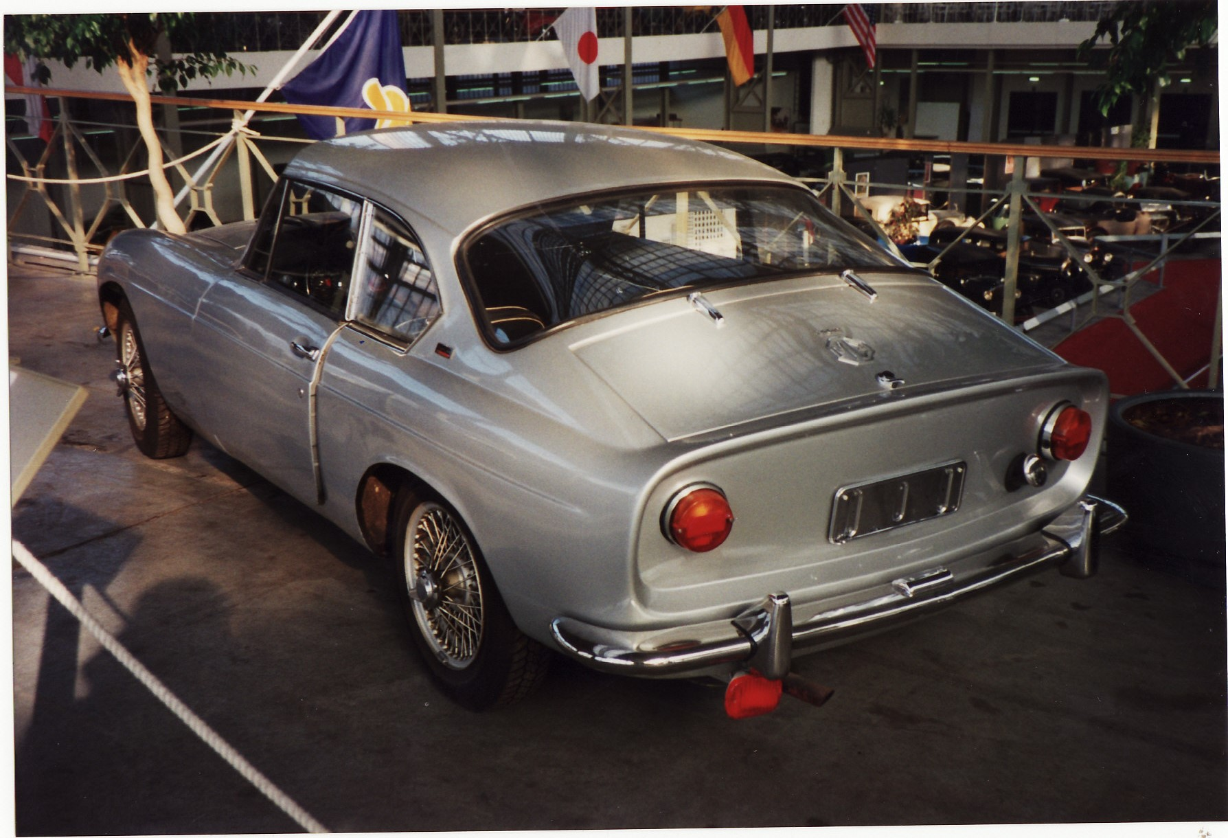 MGB Berlinette by Jacques Coune Carrossier of Belgium c.1964-70